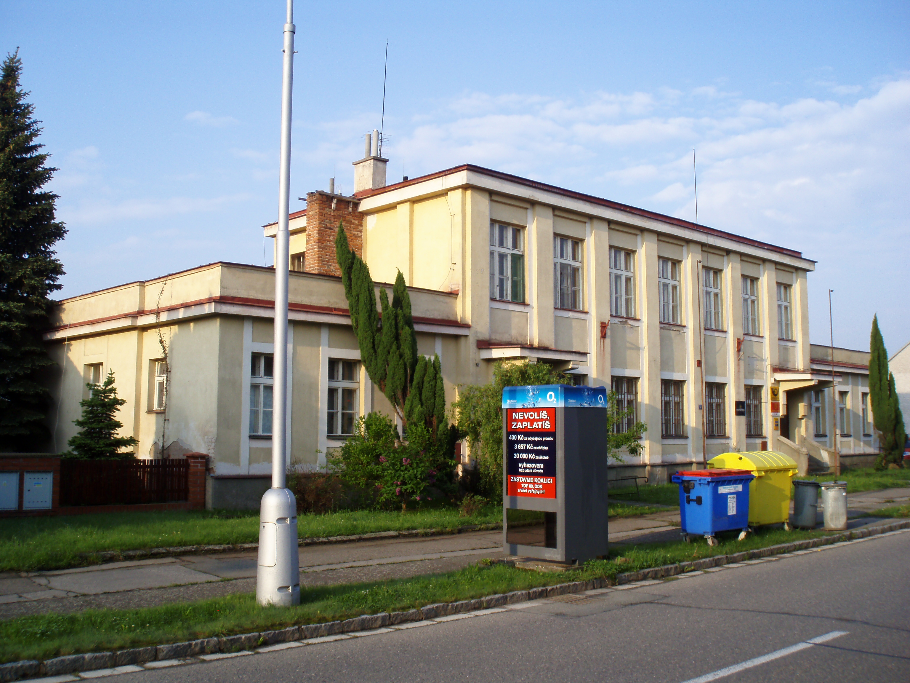 Post Office in Svobodné Dvory (Hradec Králové, Czechia)